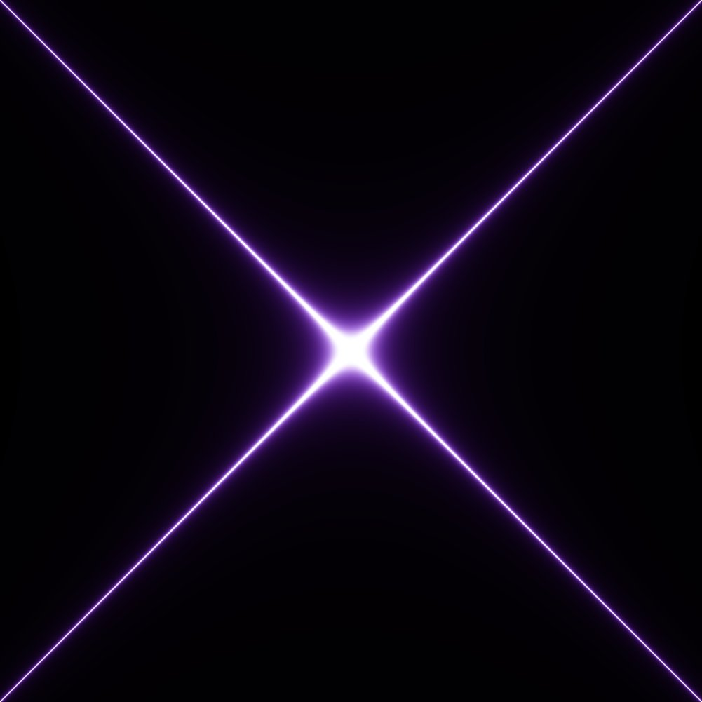 Feynman propagator, m = 0.2, left/right/top/bottom bounds of image are at = ±2.